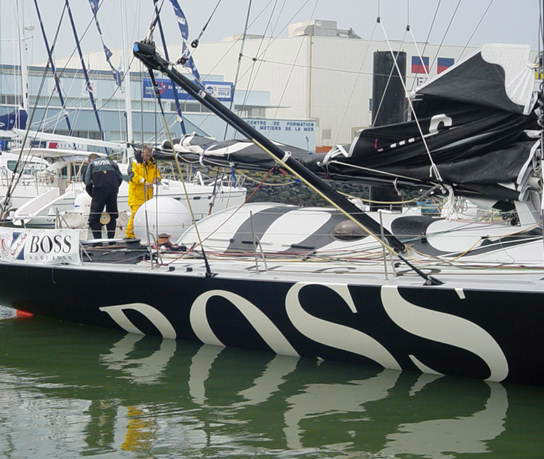 The IMOCA sailboat Hugo Boss at the start of the 2004 edition of the Vendée Globe. Les Sables d'Olonne, France.